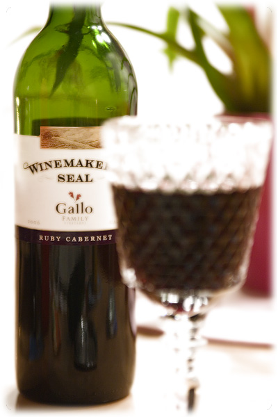 red wine from the Gallo family in California.